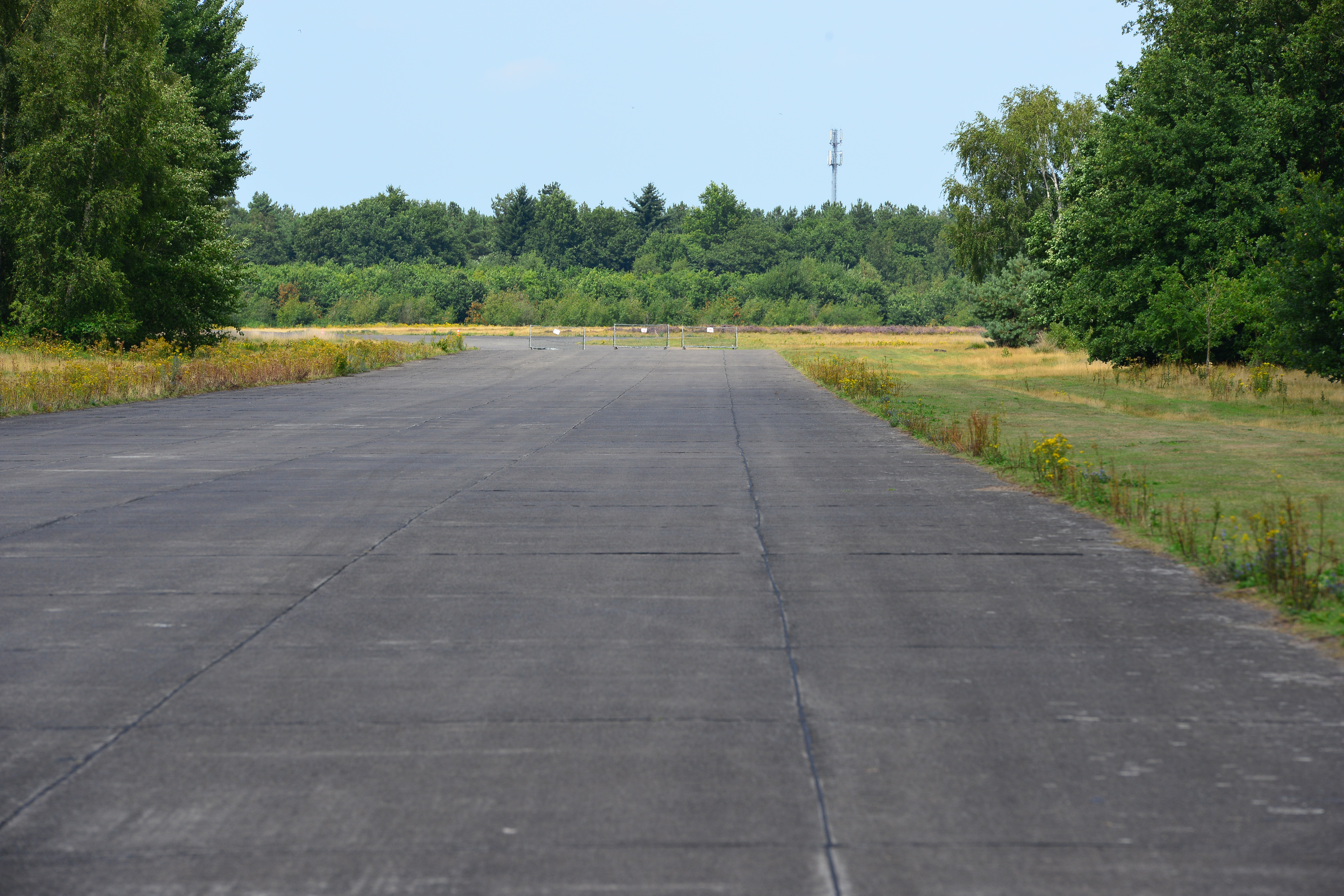 Taxiway connecting dispersals with main taxiway and runway